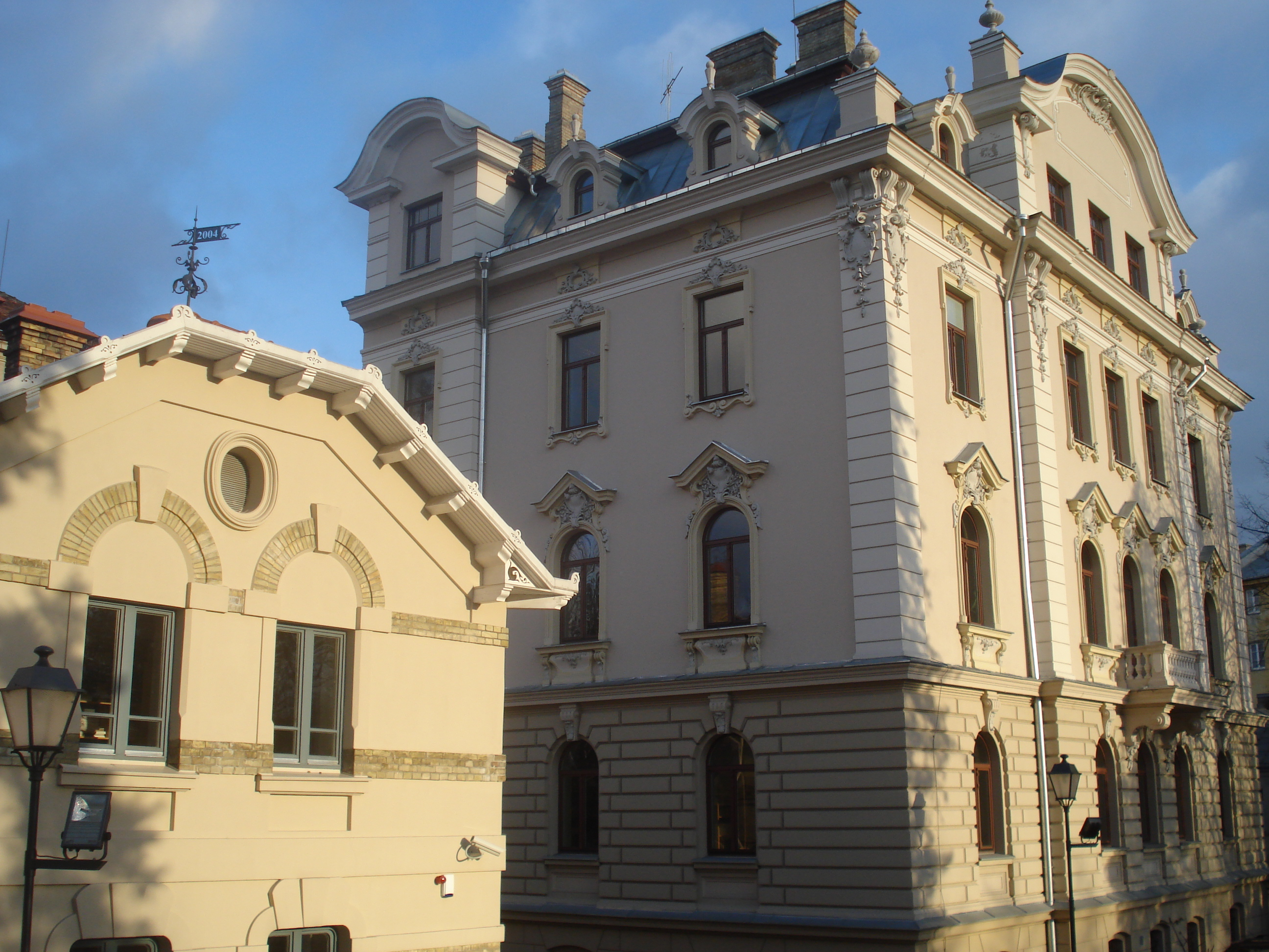 The Institute of Lithuanian Literature and Folklore in the palace of the Vileišis family (designed by August Klein, erected by Lithuanian engineer Petras Vileišisin in 1904-1906). Additional buildings. Vilnius, Antakalnio g. 6